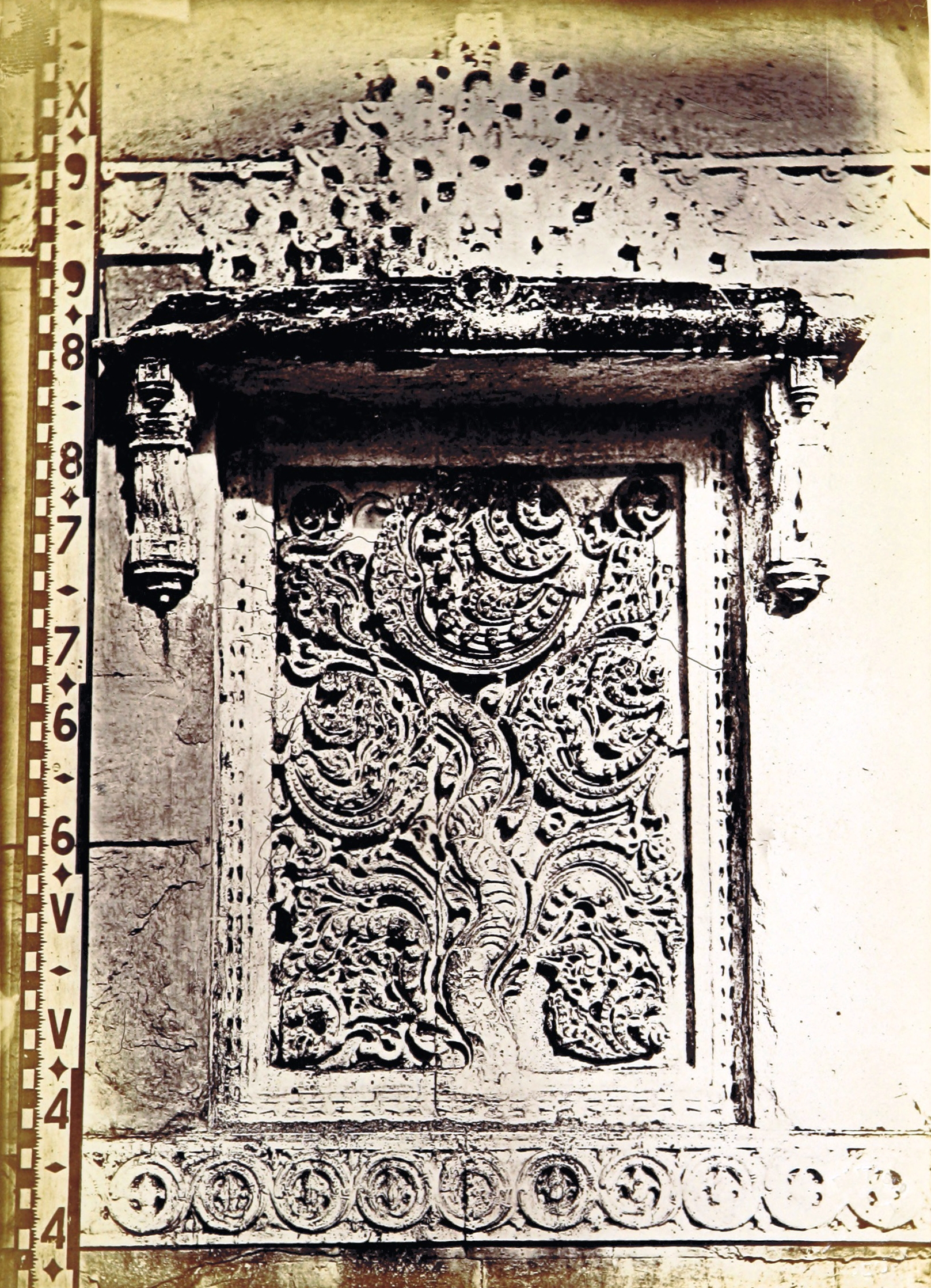 Image taken from: Title: "Architecture at Ahmedabad, the Capital of Goozerat, photographed by Colonel Biggs, ... With an historical and descriptive sketch, by T. C. H., ... and architectural notes by J. Fergusson, etc" Author: HOPE, Theodore Cracraft - Sir, K.C.S.I Contributor: BIGGS, Thomas. Contributor: FERGUSSON, James - Architect Shelfmark: "British Library HMNTS 10057.f.17.", "British Library OC V 6665" Page: 165 Place of Publishing: London Date of Publishing: 1866 Issuance: monographic Identifier: 001730119 Note: The colours, contrast and appearance of these illustrations are unlikely to be true to life. They are derived from scanned images that have been enhanced for machine interpretation and have been altered from their originals. If you wish to purchase a high quality copy of the page that this image is drawn from, please order it here. Please note that you will need to enter details from the above list - such as the shelfmark, the page, the book's volume and so on - when filling out your order. Following this or the link above will take you to the British Library's integrated catalogue. You will be able to download a PDF of the book this image is taken from, as well as view the pages up close with the 'itemViewer'. Click on the 'related items' to search for the electronic version of this work. Click here to see all the illustrations in this book and click here to browse other illustrations published in books in the same year. Please click on the tags shown on the right-hand side for other ways to browse the illustrations.